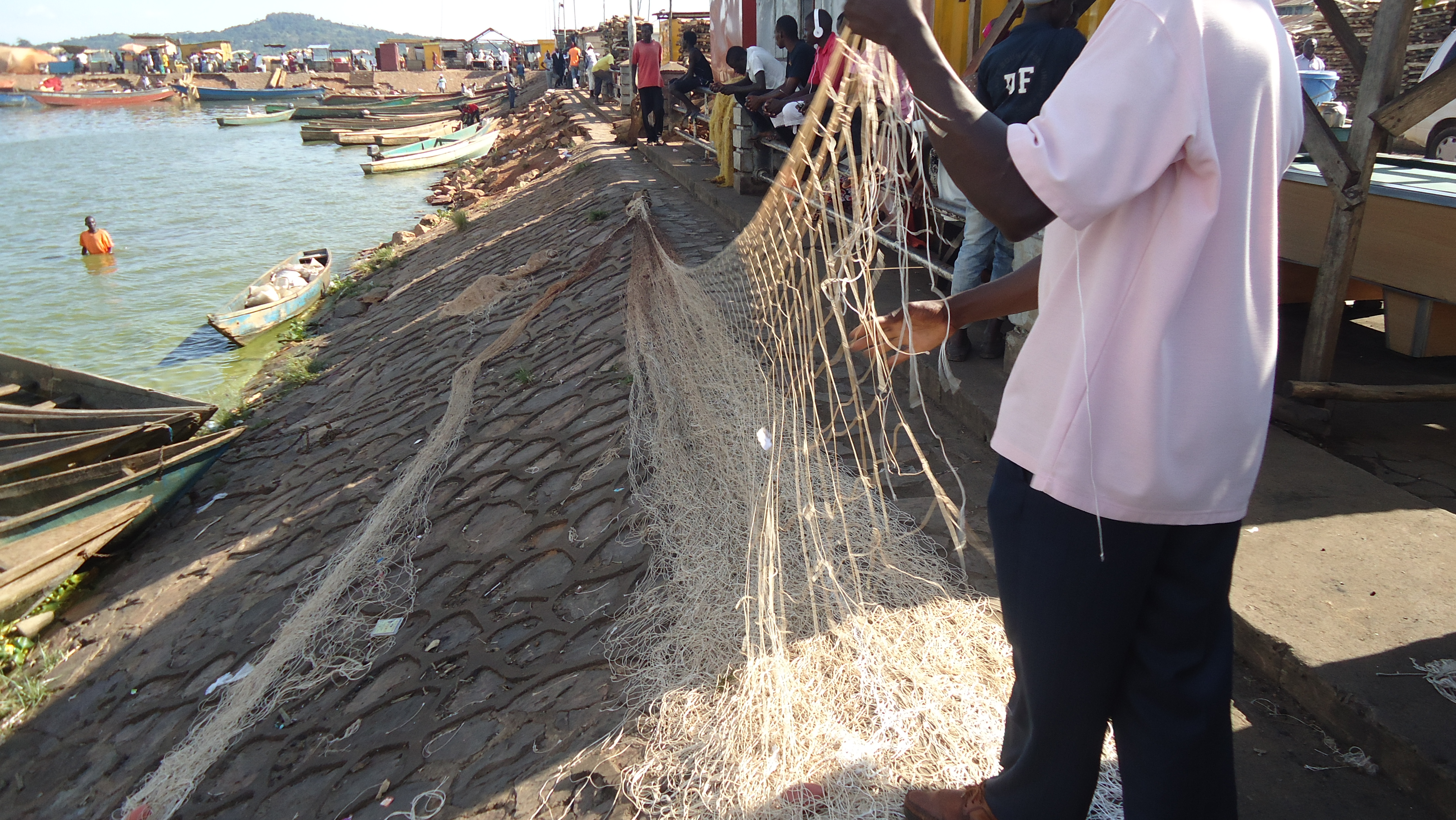 Fisherman with fishing nets at Gaba landing site